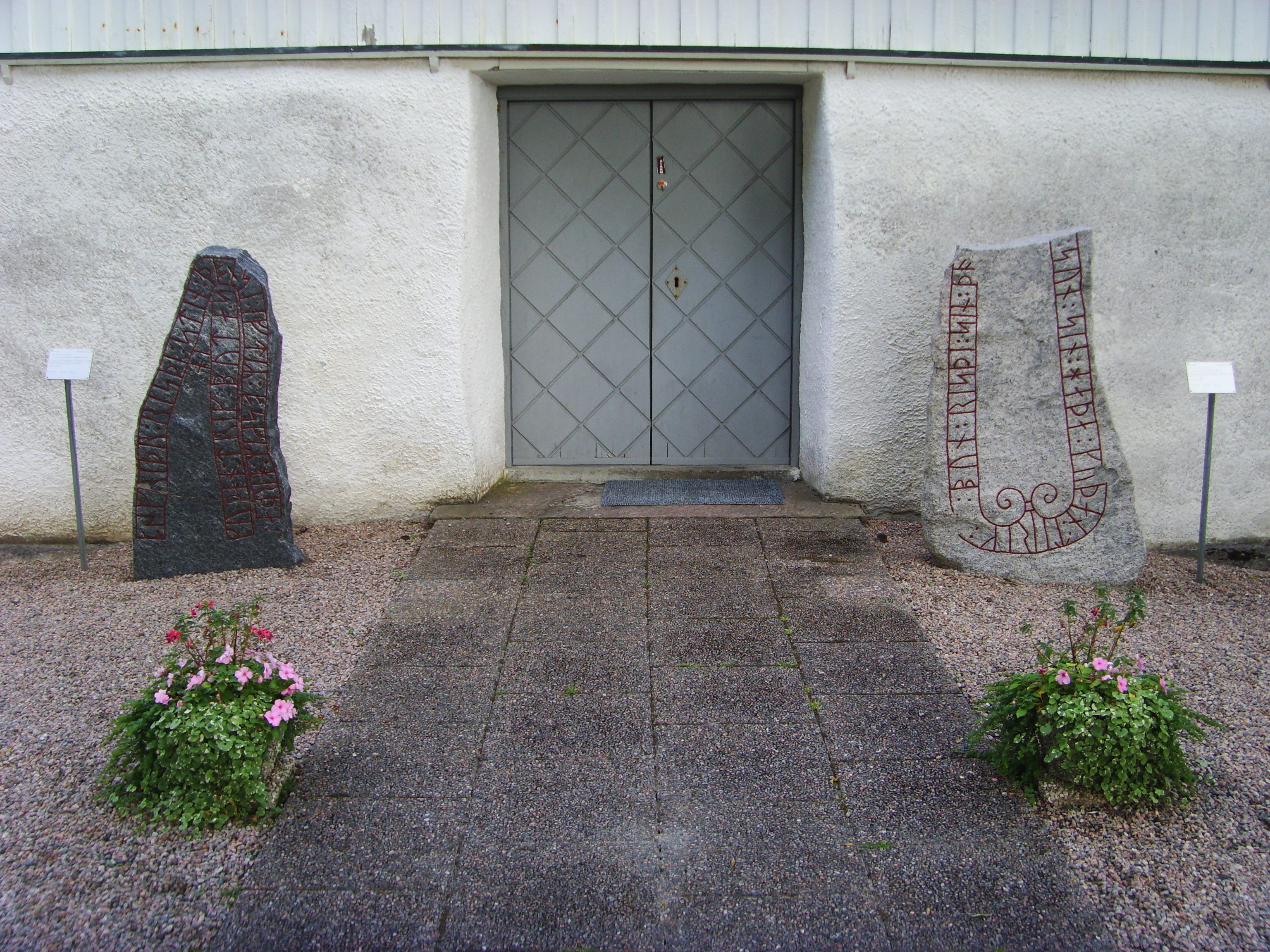 The church in Fölene, Herrljunga. The run stones RAÄ Fölene 3:1 (Vg 154) on the left side and RAÄ Fölene 3:2 (Vg 153) on the right side.